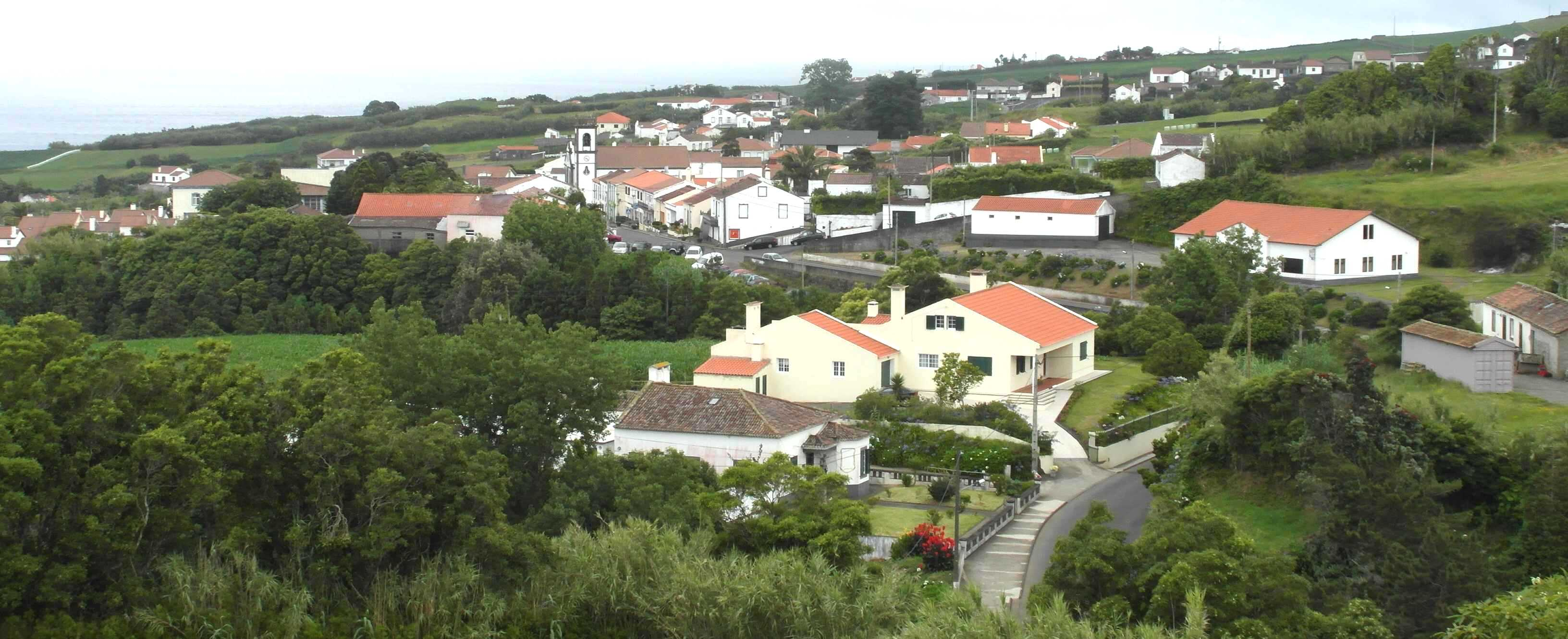 Fazenda Parish